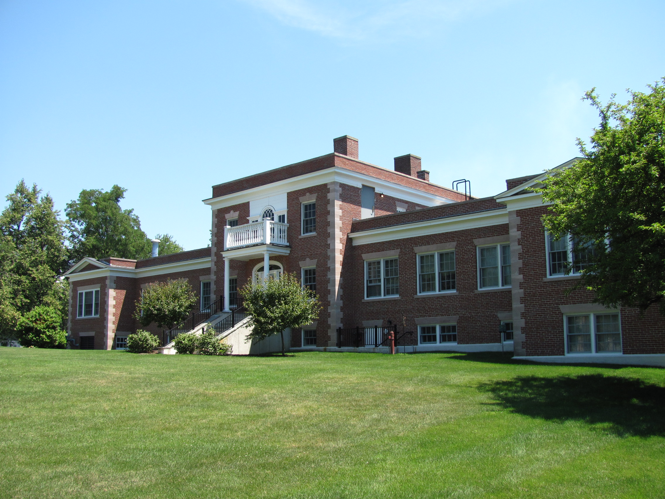 Community Memorial Hospital, Ayer Massachusetts - now Nashoba Park Assisted Living